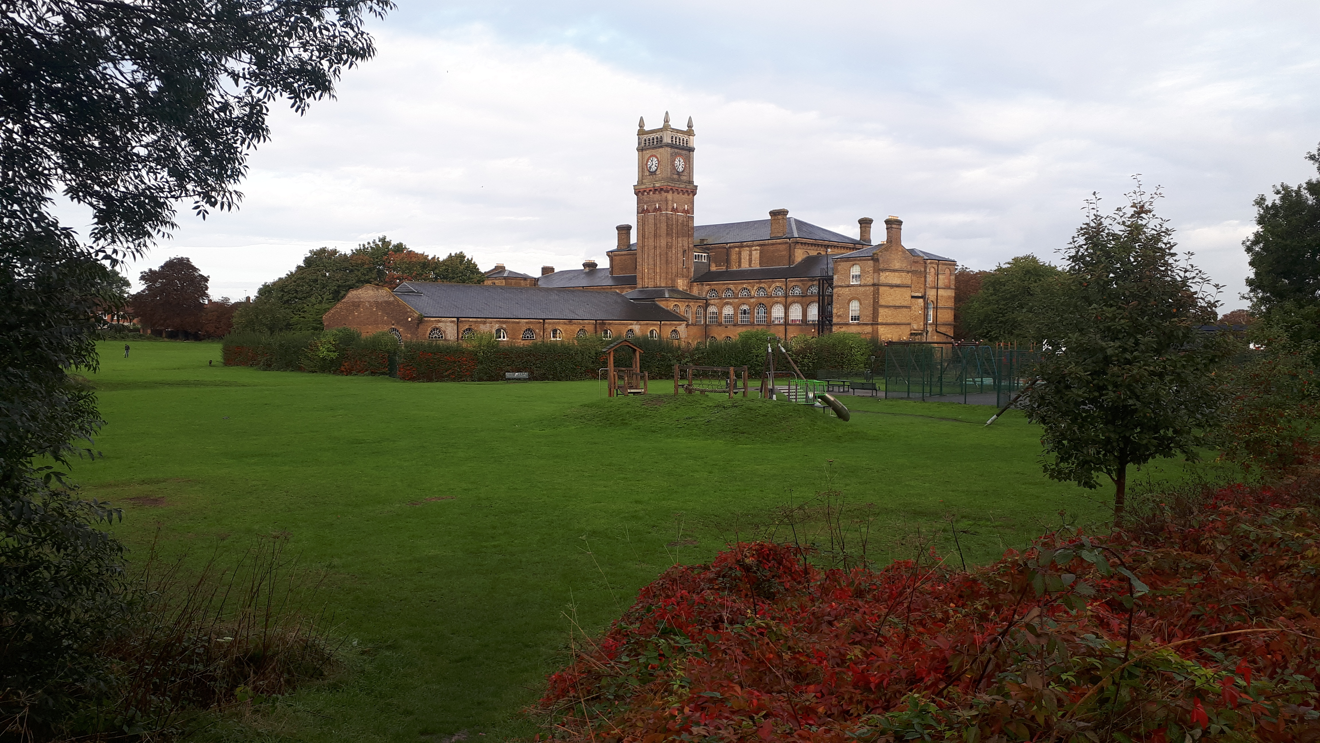 Hanwell Community Centre on Westcott Crescent (previously Cuckoo Schools). Cuckoo Schools was a large school for children of destitute families which was created as the Central London District Poor Law School by the City of London and the East London and St. Saviour Workhouse Unions in 1857. It was built on the land of Cuckoo Farm on Cuckoo Hill in 190 acres of Hanwell. 20 acres were kept as a working farm to educate and feed the children.